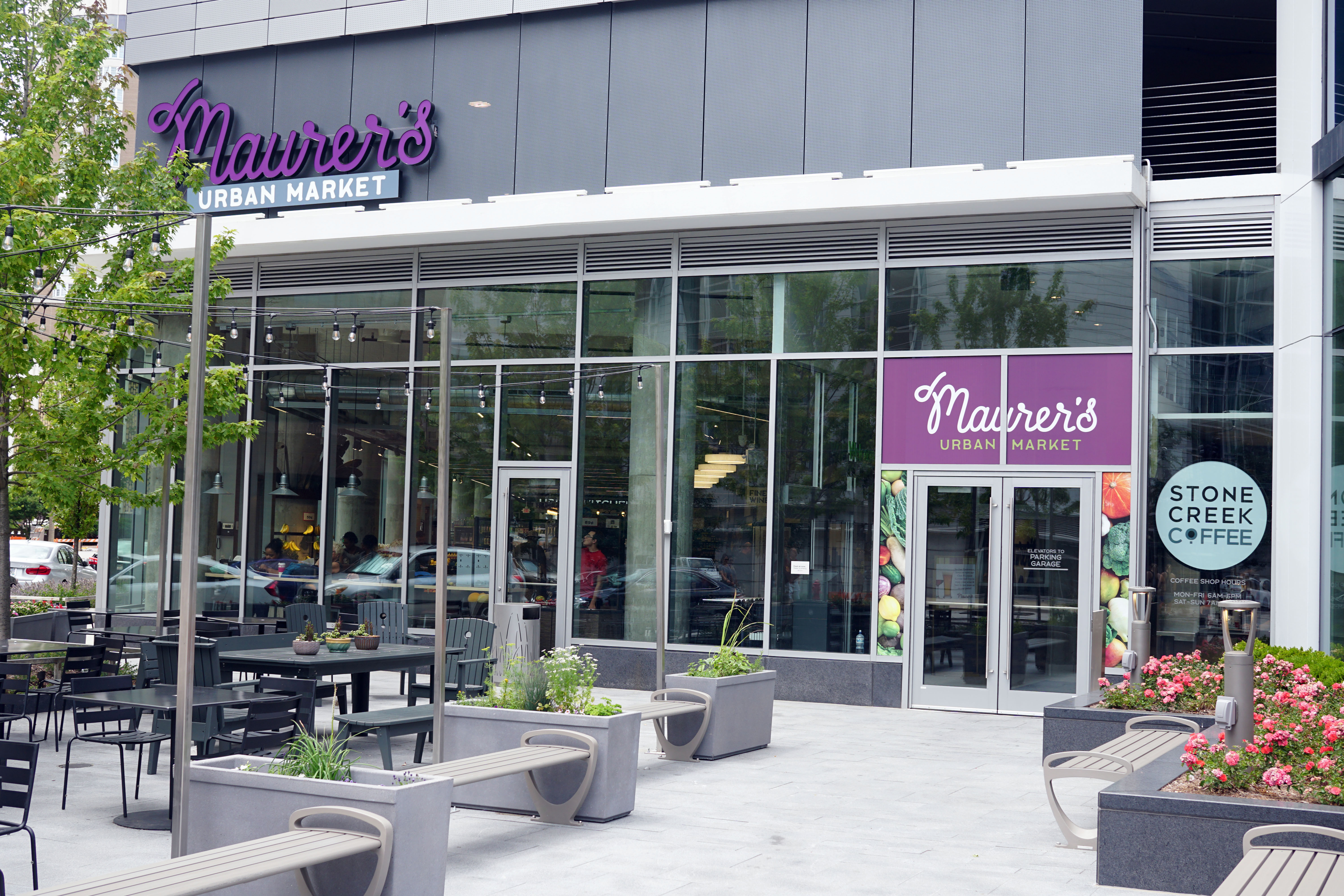 Mauerers Urban Market located in the 7Seventy7 building